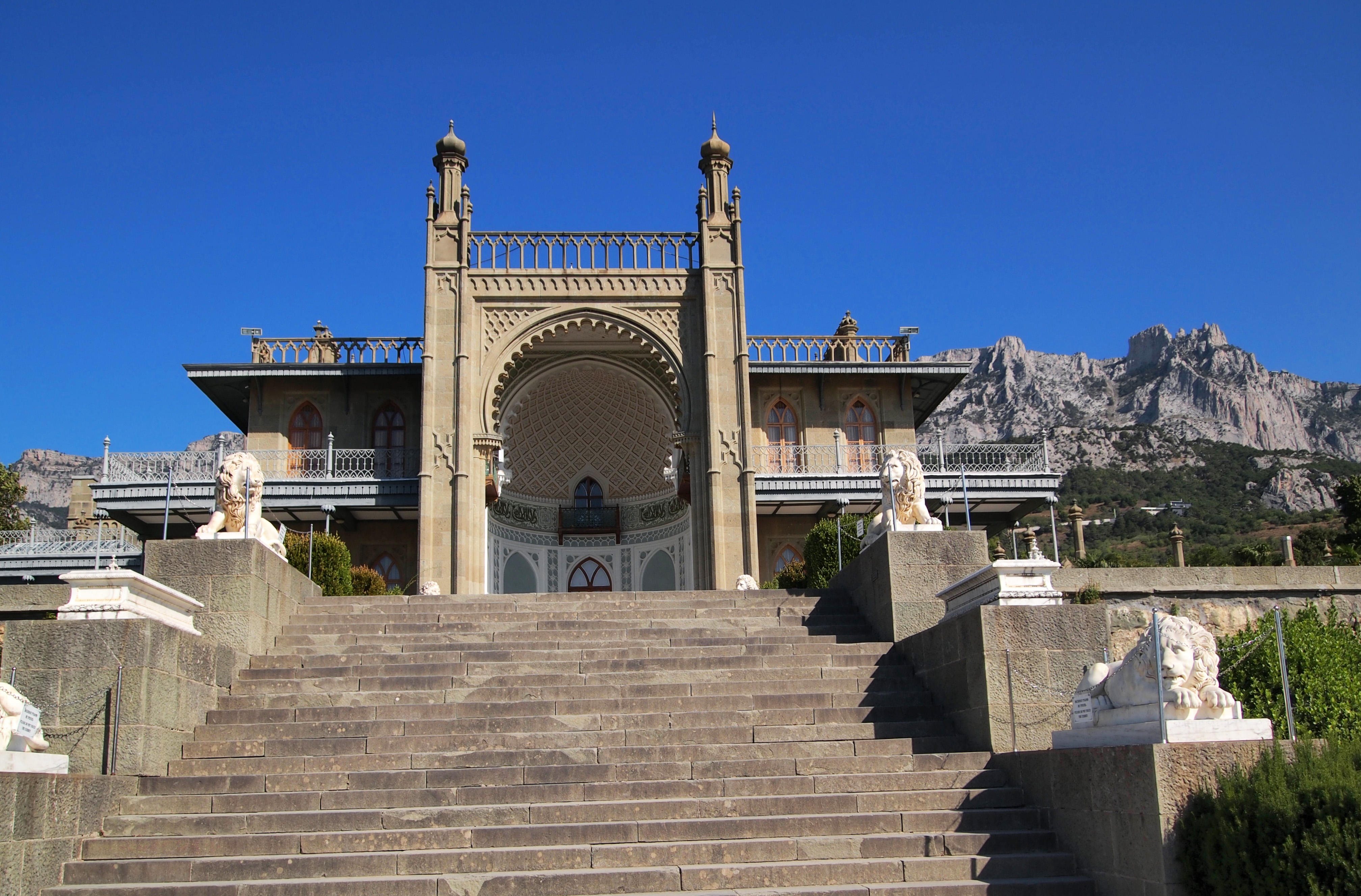 Alupka castle and stairs. This photograph was taken with an Olympus E-PL1